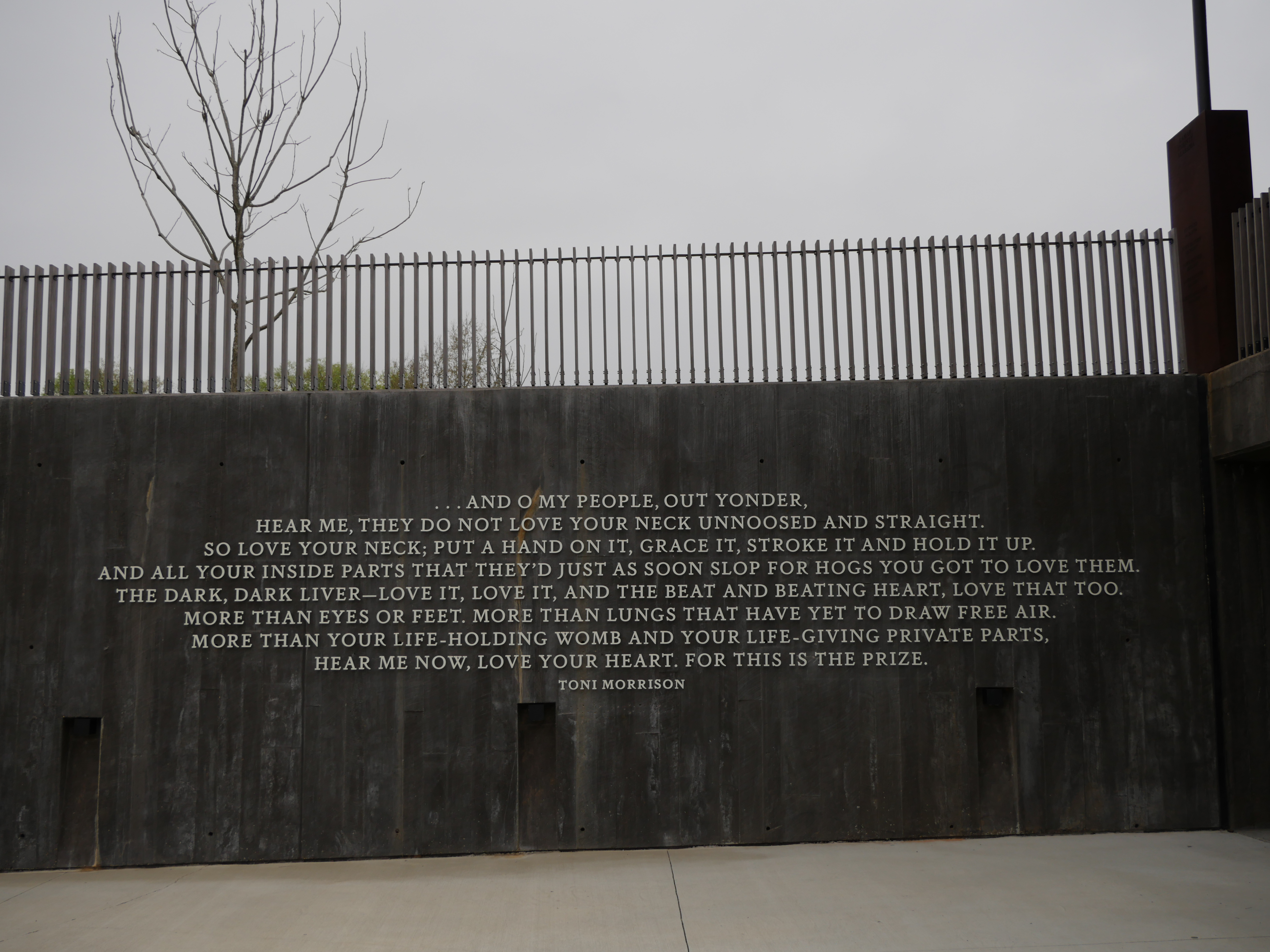 Quote from Toni Morrison on a wall as part of the National Memorial for Peace and Justice. The memorial, which covers a city block in downtown Montgomery, Alabama, commemorates over four thousand lives lost to racial lynchings. It was organized by the Equal Justice Initiative and opened in 2018.